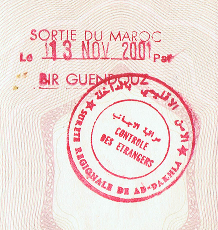 Exit stamp of Morocco by the post of Bir Guendouz in Guerguerat